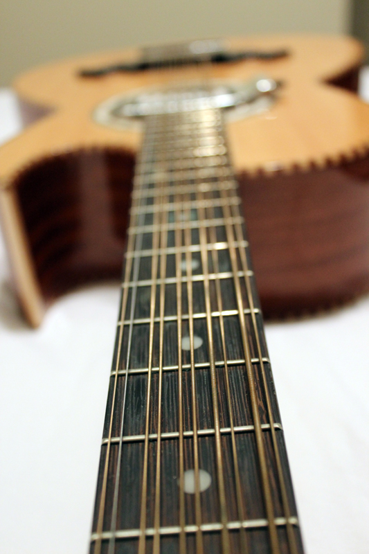 Picture of a Bajo Quinto